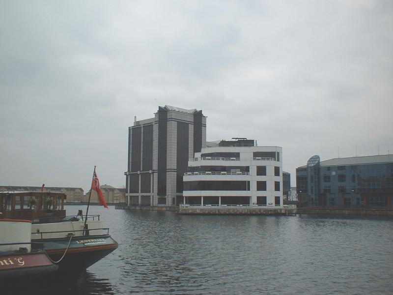 Millwall Dock